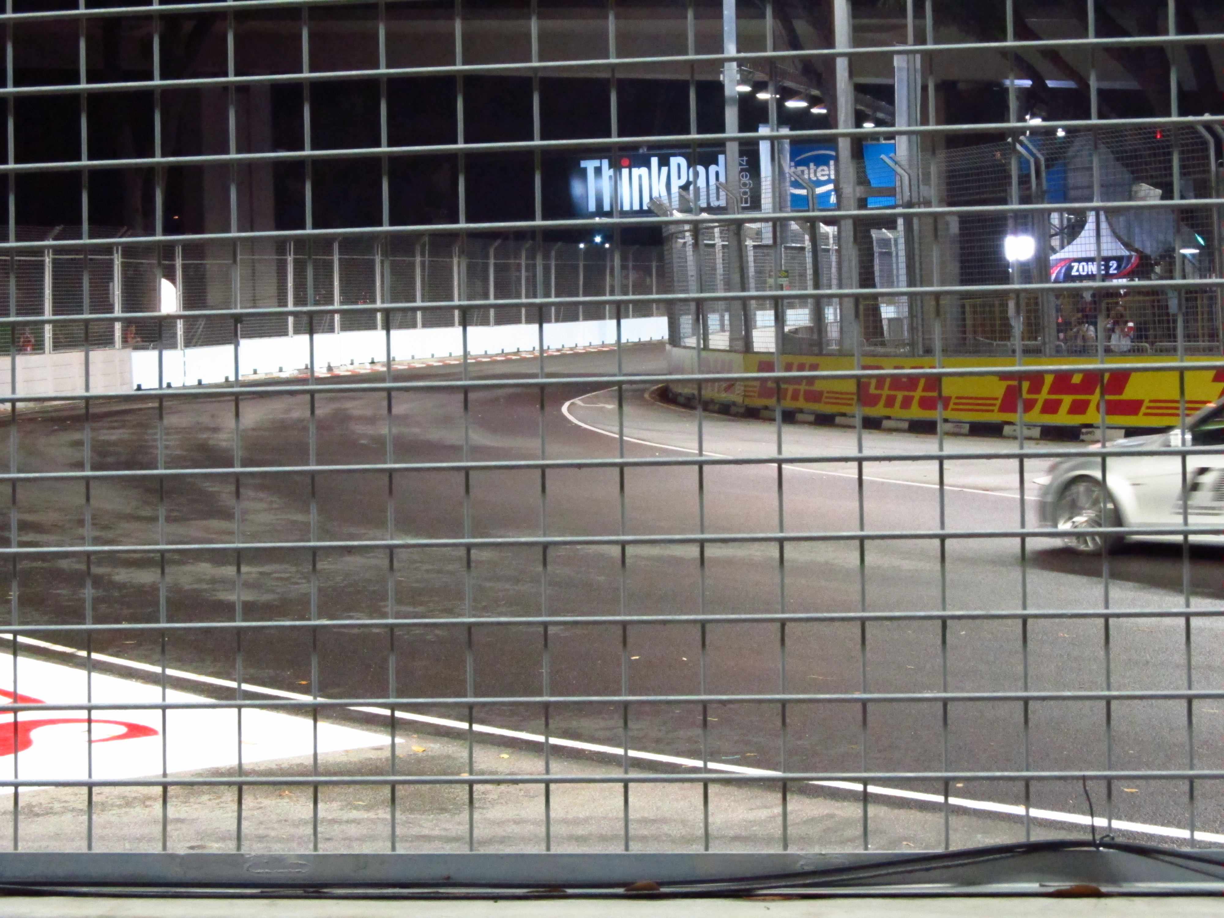 The Formula One safety car doing an inspection of the Marina Bay Street Circuit between first and second practice for the 2010 Singapore Grand Prix at Turn 5 (Republic Boulevard/Raffles Boulevard).